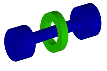 Modified version of Image:Rotaxane.jpg with labeling removed and transparency added